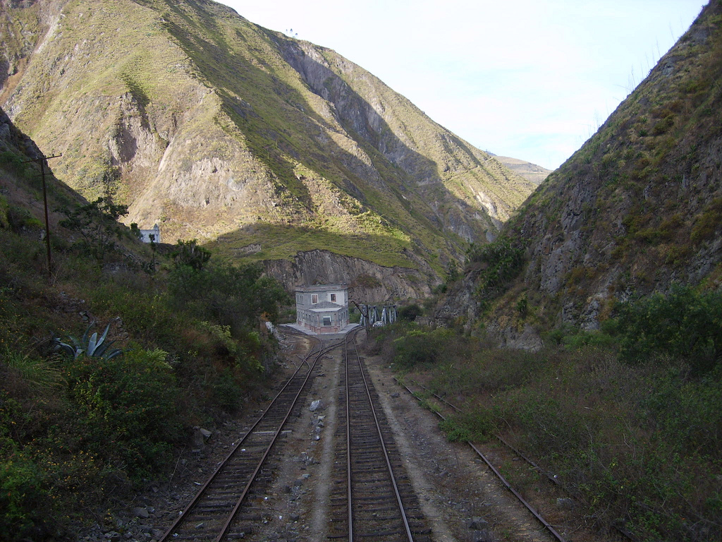 Former train station in Sibambe, Ecuador. It used to be a junction - the track on the left used to go to Cuenca, the one on the right to Durán for Guayaquil. During my visit, both routes were unpassable, the train station together with the whole town was abandoned (no roofs, etc.) and only tourist trains for Devil's Nose (Nariz del Diablo) from Riobamba via Alausí terminated here.